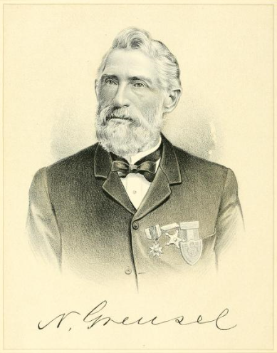 Sepia lithograph of an older man with three medals pinned to his coat.